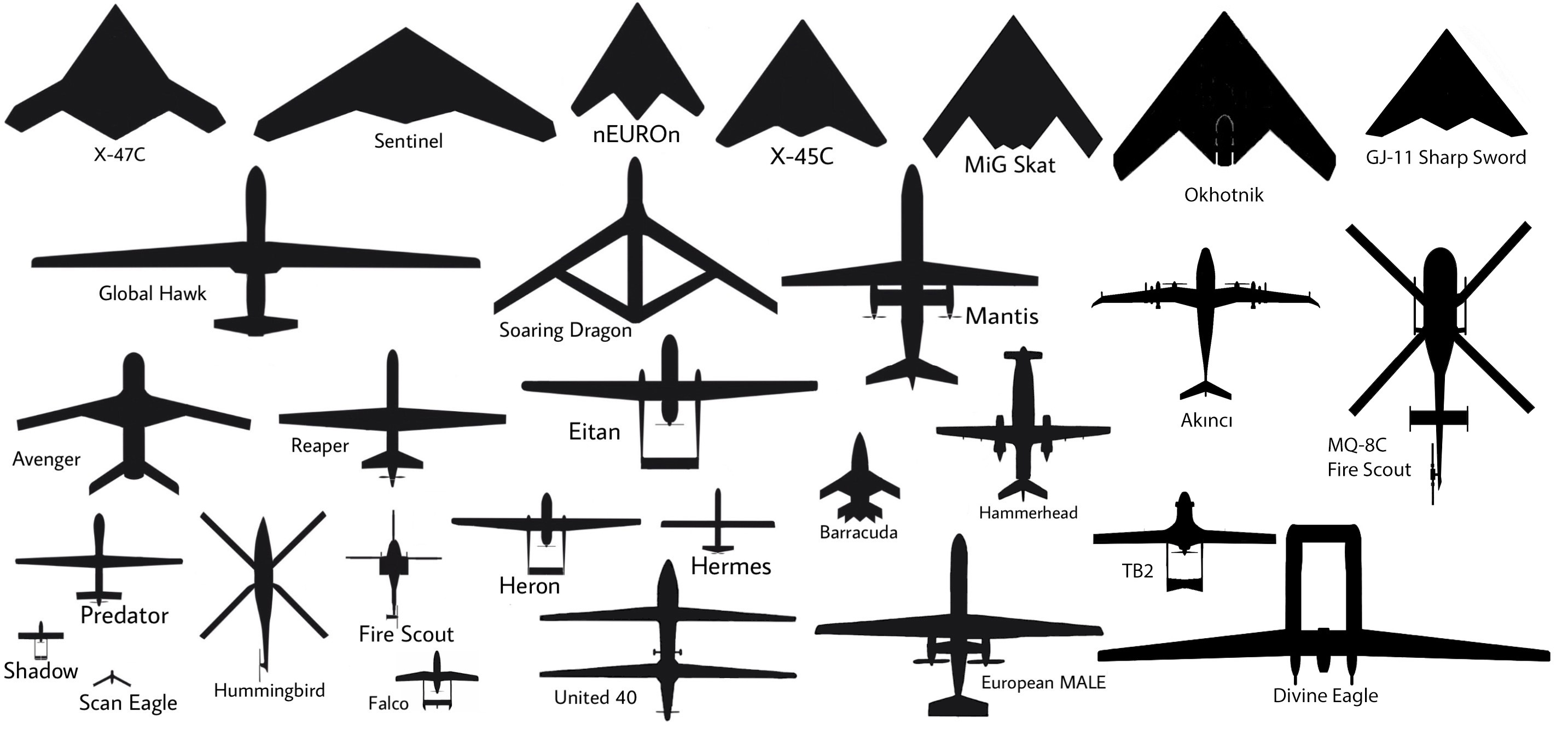 A comparison of many unmaned aerial vehicles.